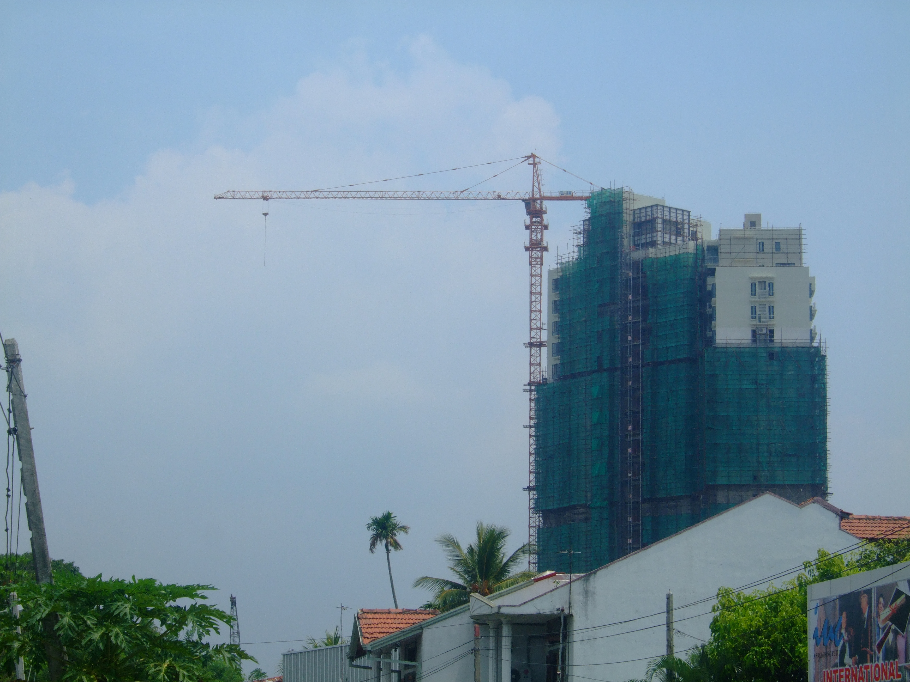 Construction of Phase-1 of the Havelock City, Sri Lanka.